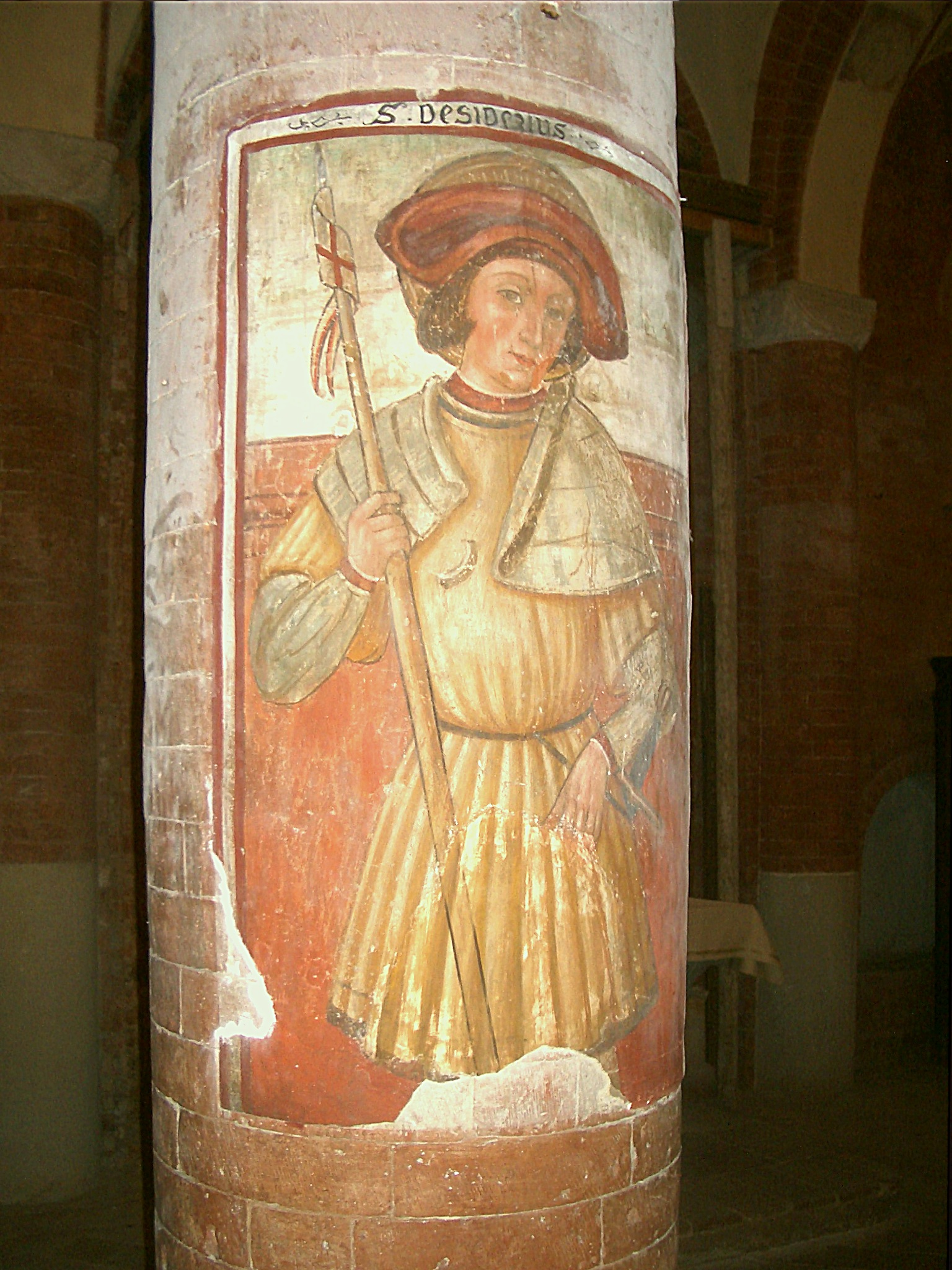 Rivalta Scrivia, Saint Mary’s Abbey”, Franceschino Boxilio (?), “St. Desiderio”, fresco on a pillar, XV century